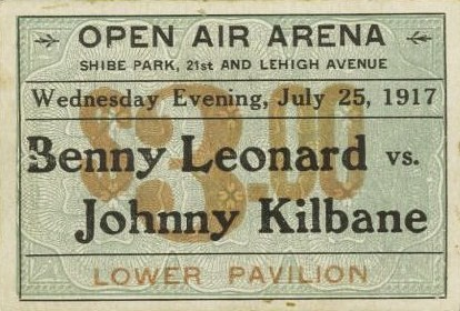 Ticket stub: Leonard vs Killbrane, Shibe Park, Phila, 1917